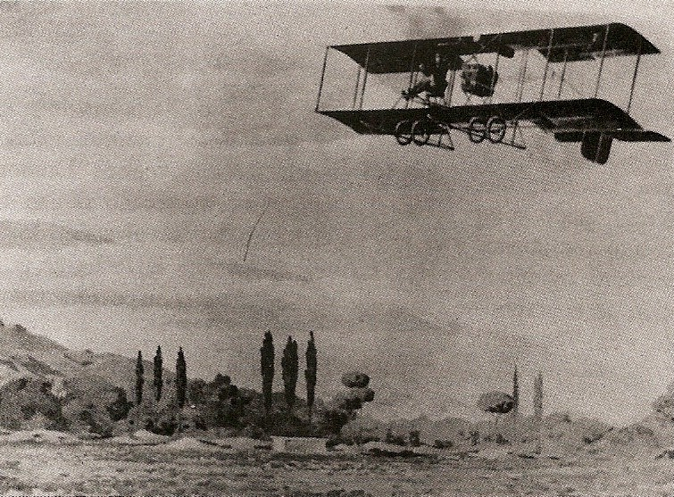 An extensively modified image of the aircraft that made the first flight over Caracas in 1912